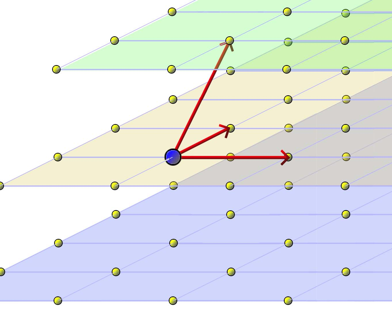 Existence of a base for a lattice (group).